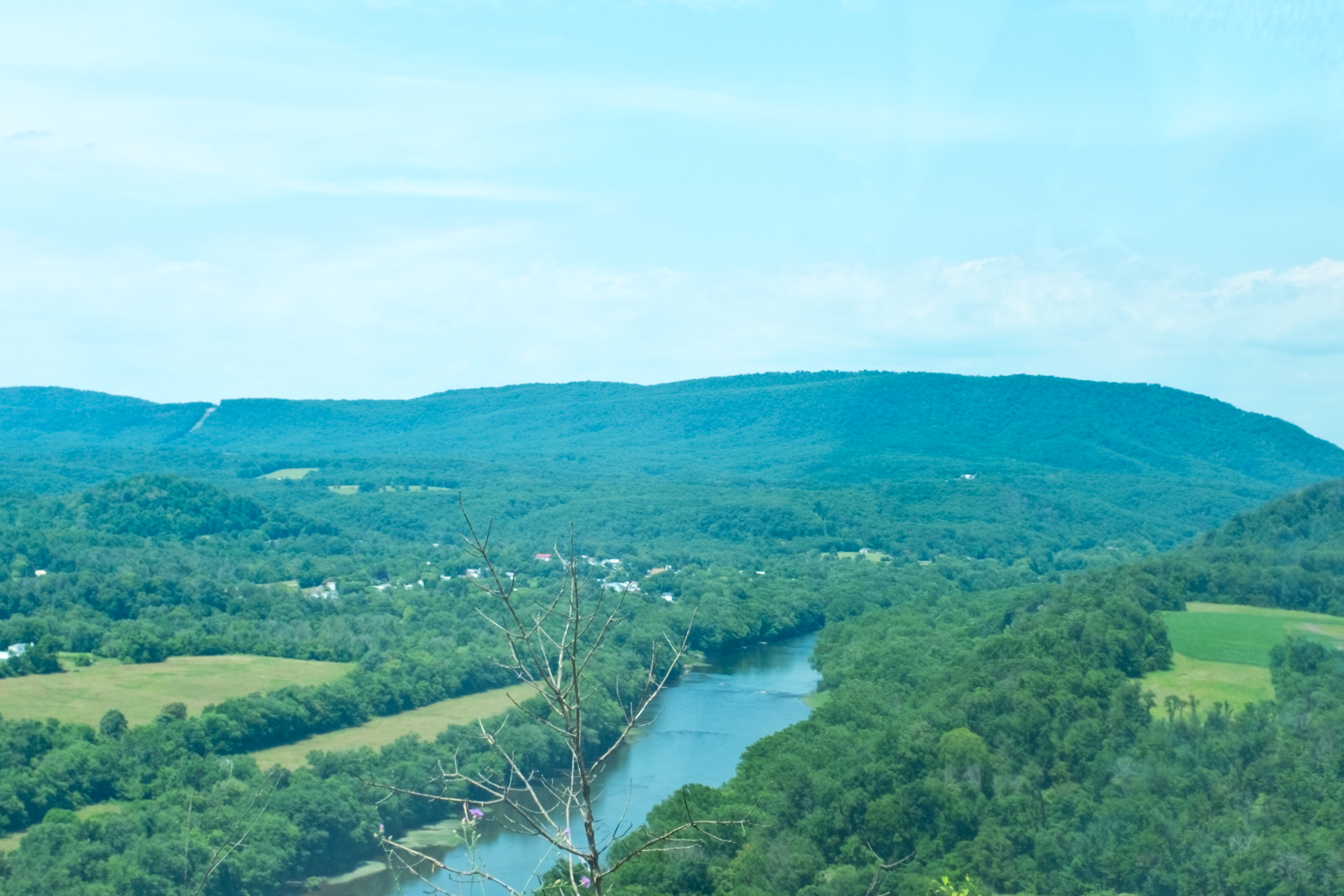 View of Potomac River, where the Cacapon river joins it (barely visible) Houses from the town of Great Cacapon WV are visible. This is viewed from the "Prospect Point" in West Virginia. Maryland is across the river on the right and center. Chesapeake and Ohio Canal runs on the right hand side (Maryland side) of the river.